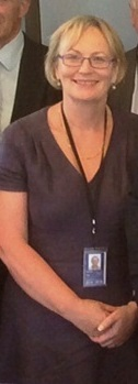 Julie Girling MEP